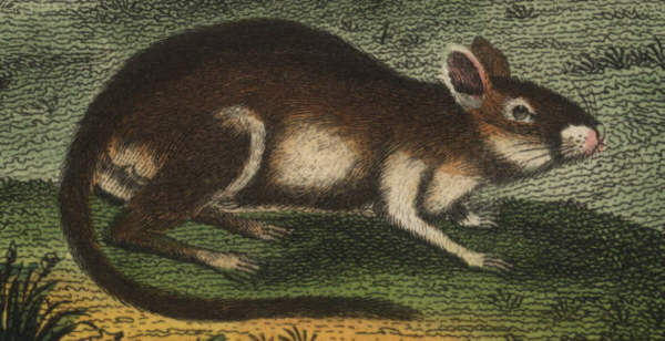 From "A Genuine and Universal System of Natural History" by Sir Charles Linnaeus (completed by J. Frid Gmelin). Published in London in 1804